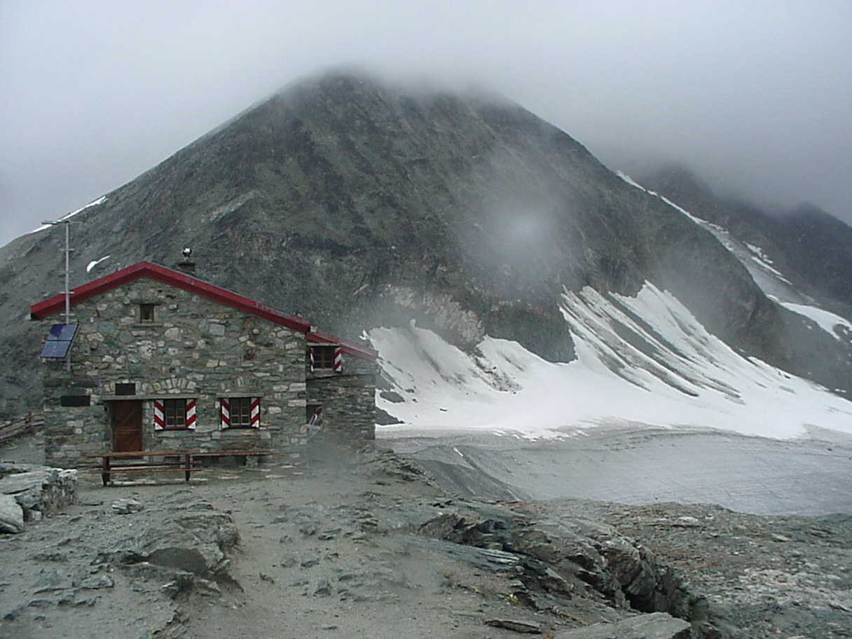 Cabane de Tracuit